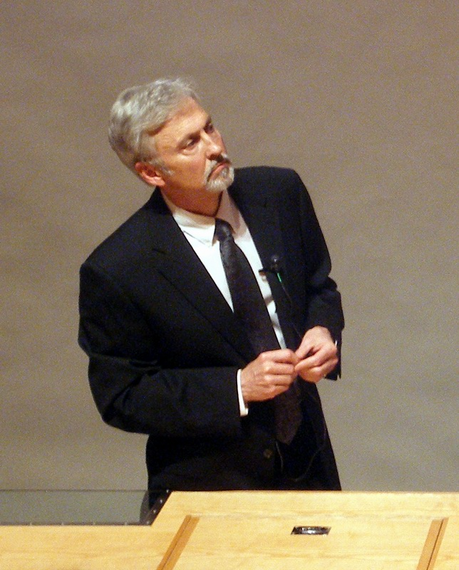 Allen is giving the Uehiro Lectures this term. The subject is the ethics of enhancement. He is a much nicer guy than this photo seems to imply.